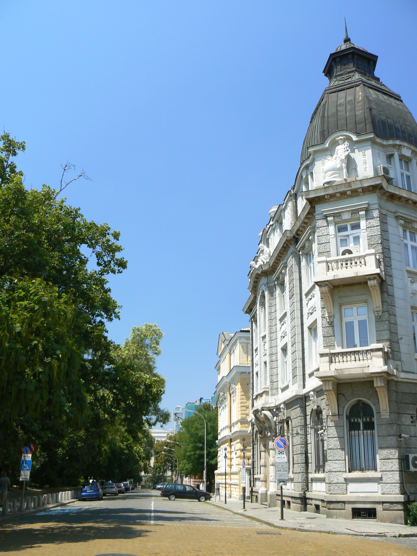 "Moskovska" Street in Sofia, Bulgaria